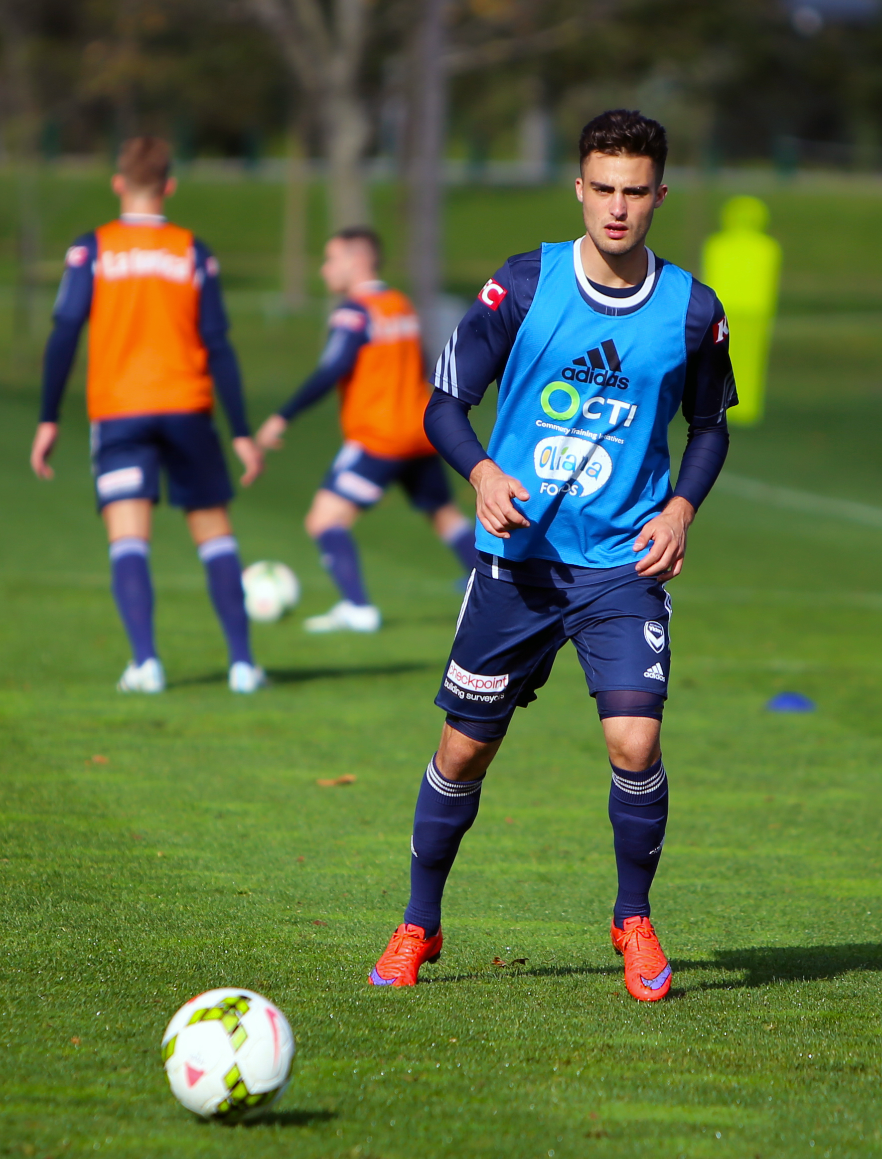 Jesse Makarounas training for Melbourne Victory, May 2015